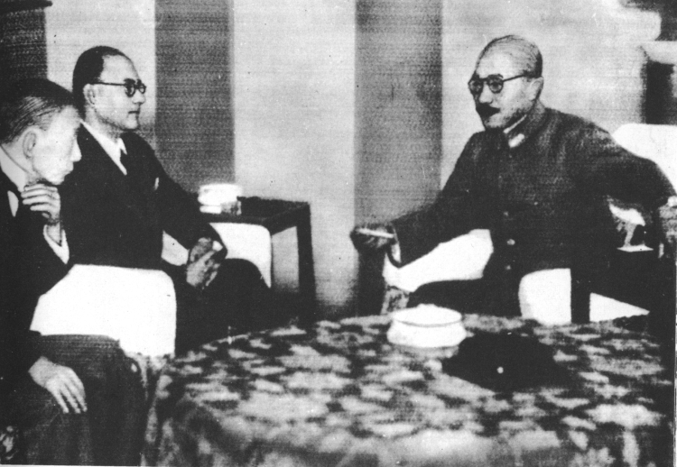 Meeting of Subhash Chandra Bose and Hideki Tojo in Tokio.